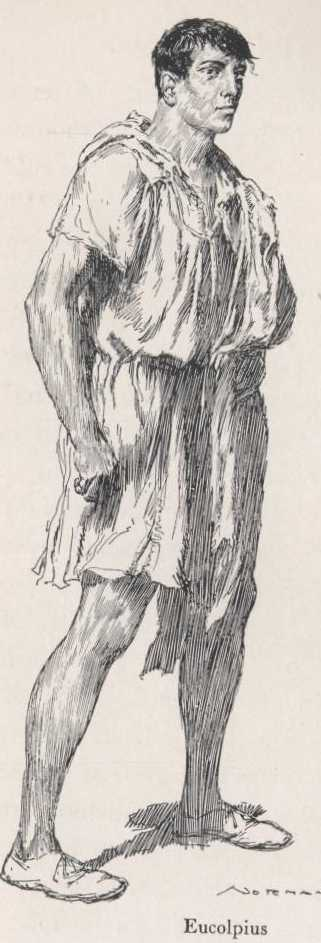 Illustration by Norman Lindsay for Petronius Arbiter's Satyricon